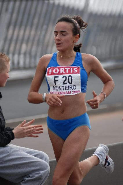 Ines Monteiro during Rotterdam Marathon 2008